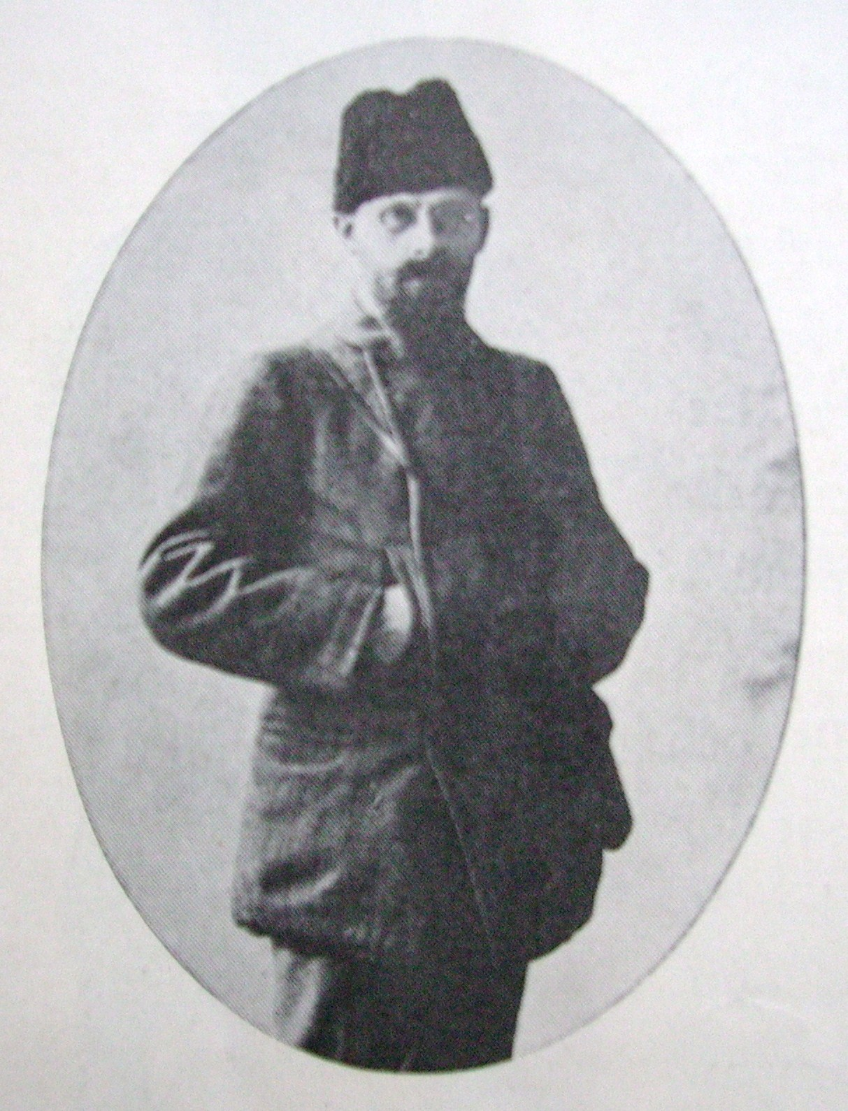 Picture of Karl-Erik Forsslund, Swedish writer